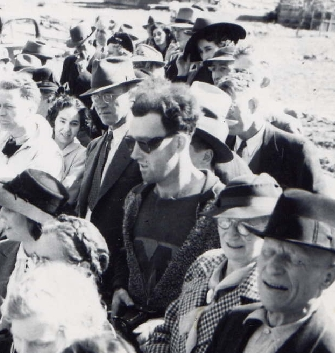 A crowd gathers for the re-opening of the South Fork Bridge, Gold Bridge B.C. in 1941. One man appears oddly out of place